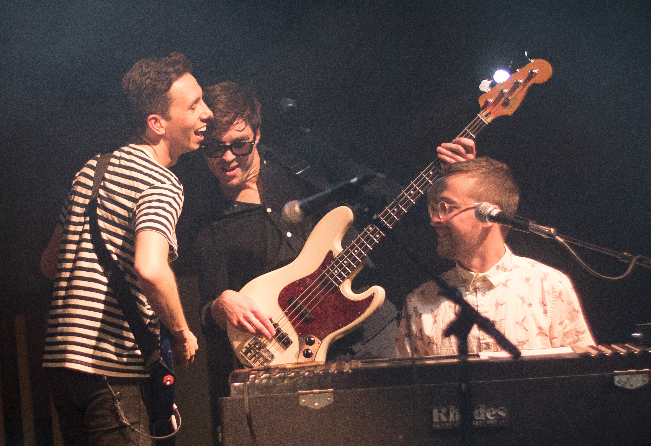 Cory Wong, on left, performing with Vulfpeck at the Crystal Ballroom in Portland, Oregon, on May 26, 2017.[1]